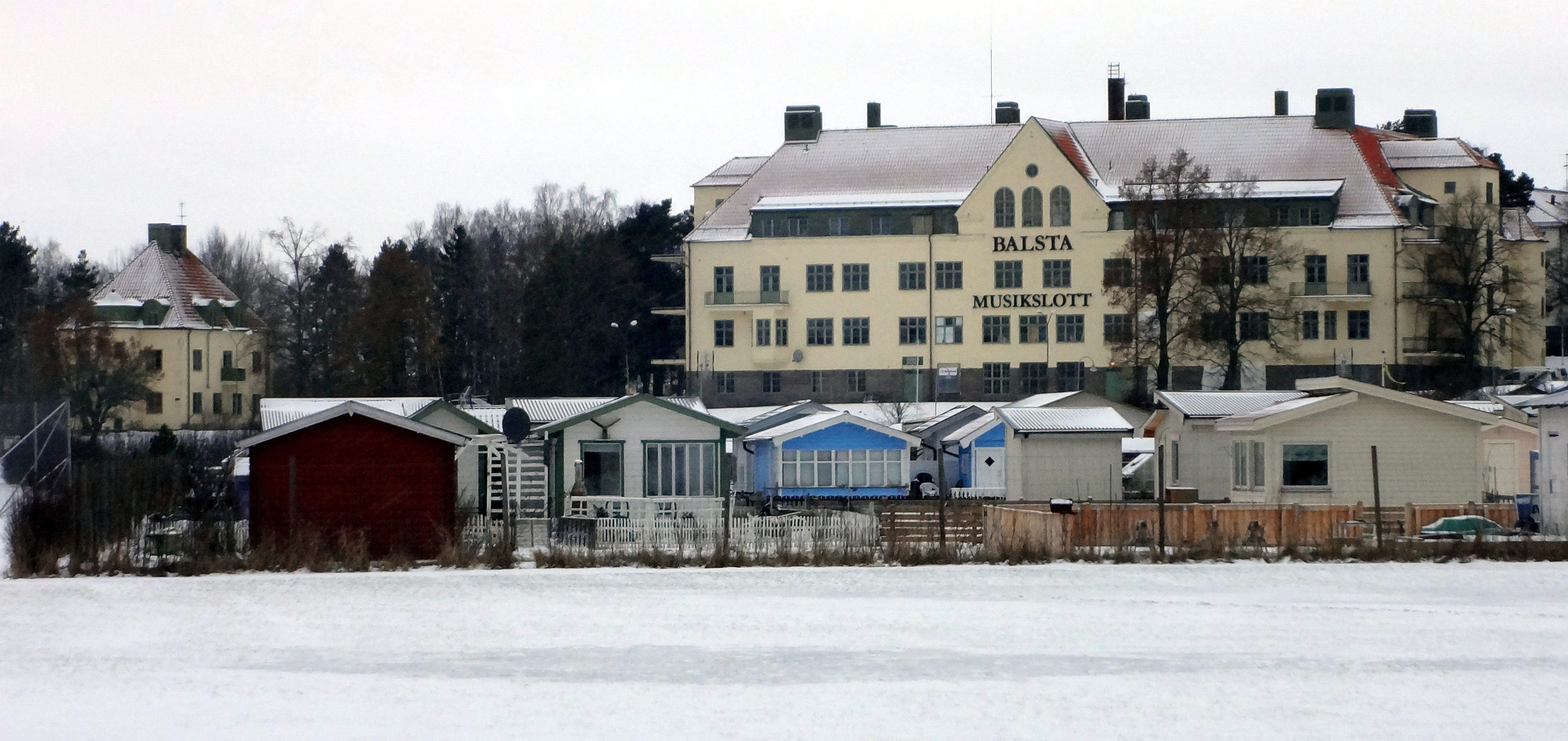 "Balsta musikslott" (en: Balsta Music castle) in Eskilstuna, Sweden.